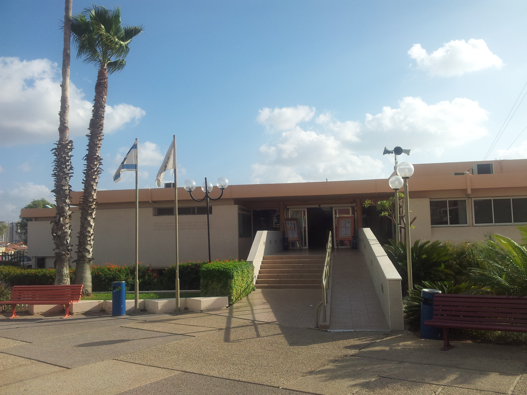 Olga on the sea Sep 2014